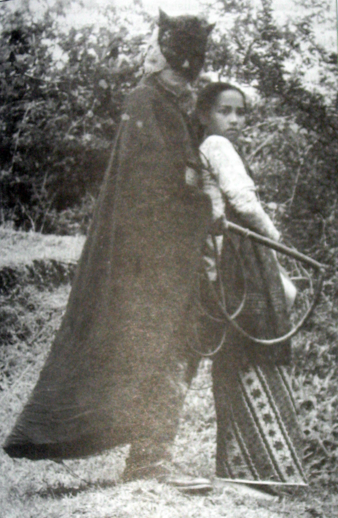 Promotional photograph of Mohammad Mochtar and Hadidjah from Srigala Item